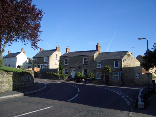 The Church Corner in Lavendon The Church Corner (an unofficial name) is a sharp bend on the A428 road in the centre of Lavendon. To the left, the main road heads for Northampton, and to the right on the bend is Castle Road named after Lavendon Castle, see SP9154.